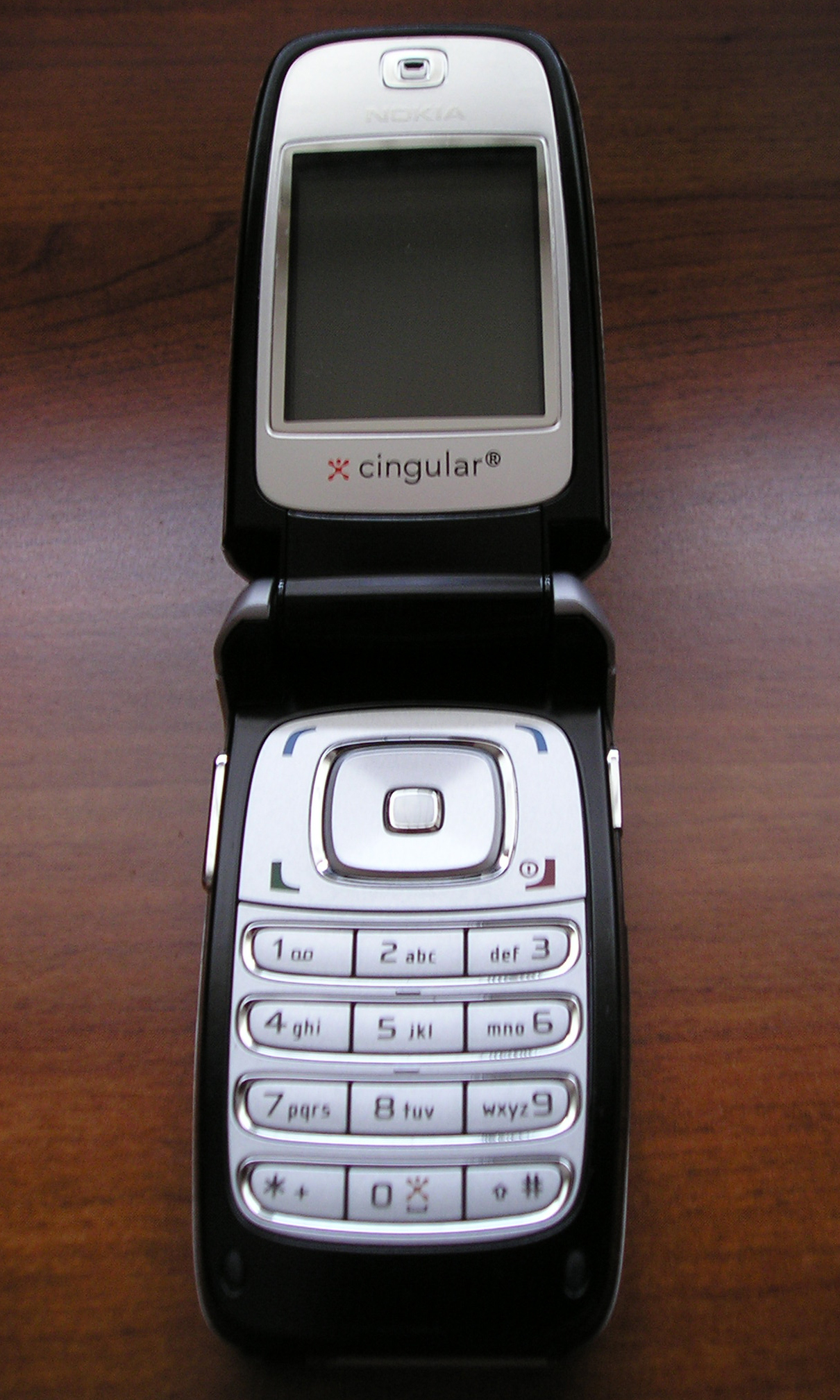 The Nokia 6102i from Cingular Wireless opened up.